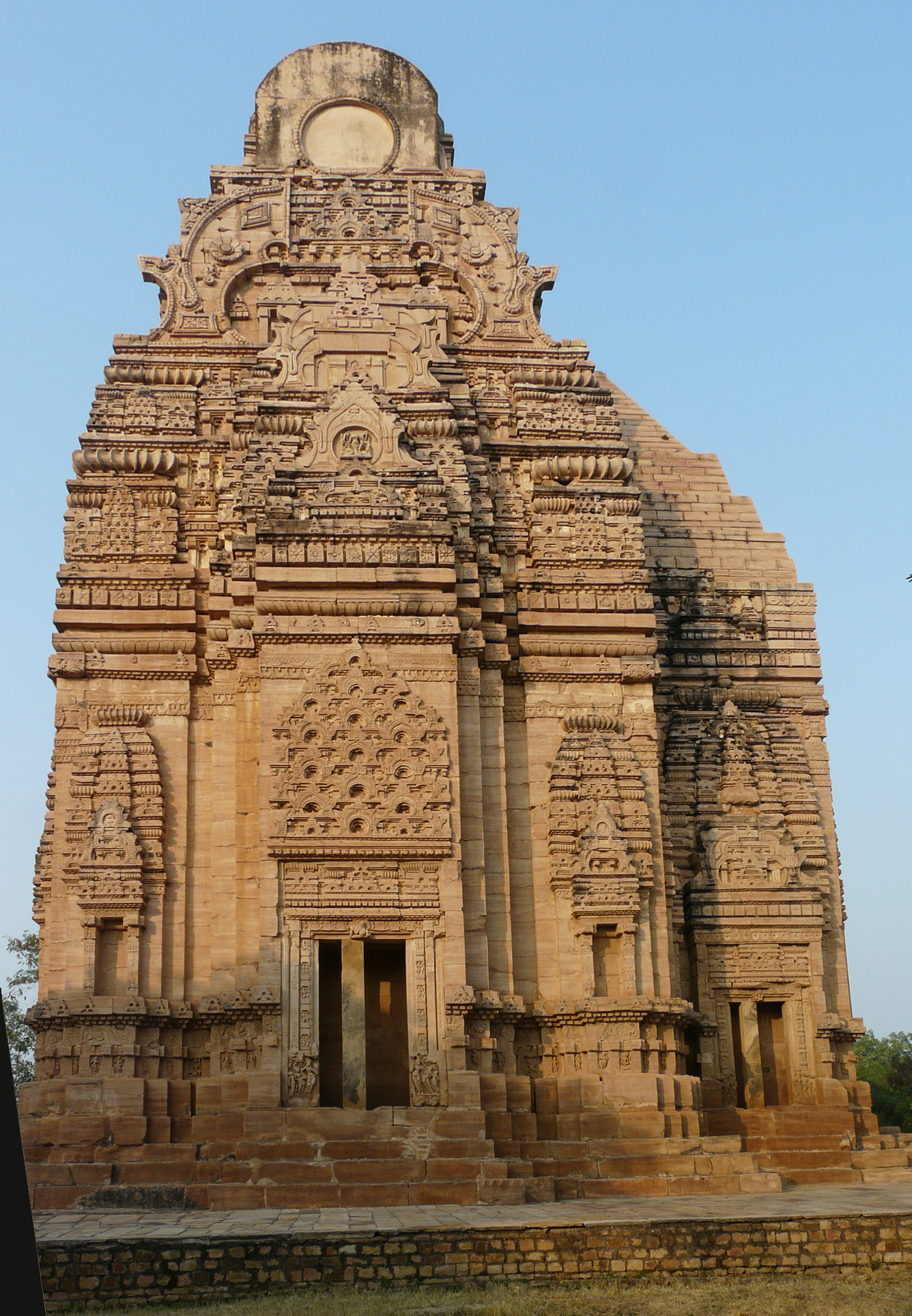 Teli ka Mandir, in the fort above Gwalior, Madhya Pradesh, India. Ref. : George Michell, Hindu Art and Architecture, London, Thames & Hudson, coll. « World of Art », 2000, 224 p. (ISBN 0-500-20337-7), p 52-53